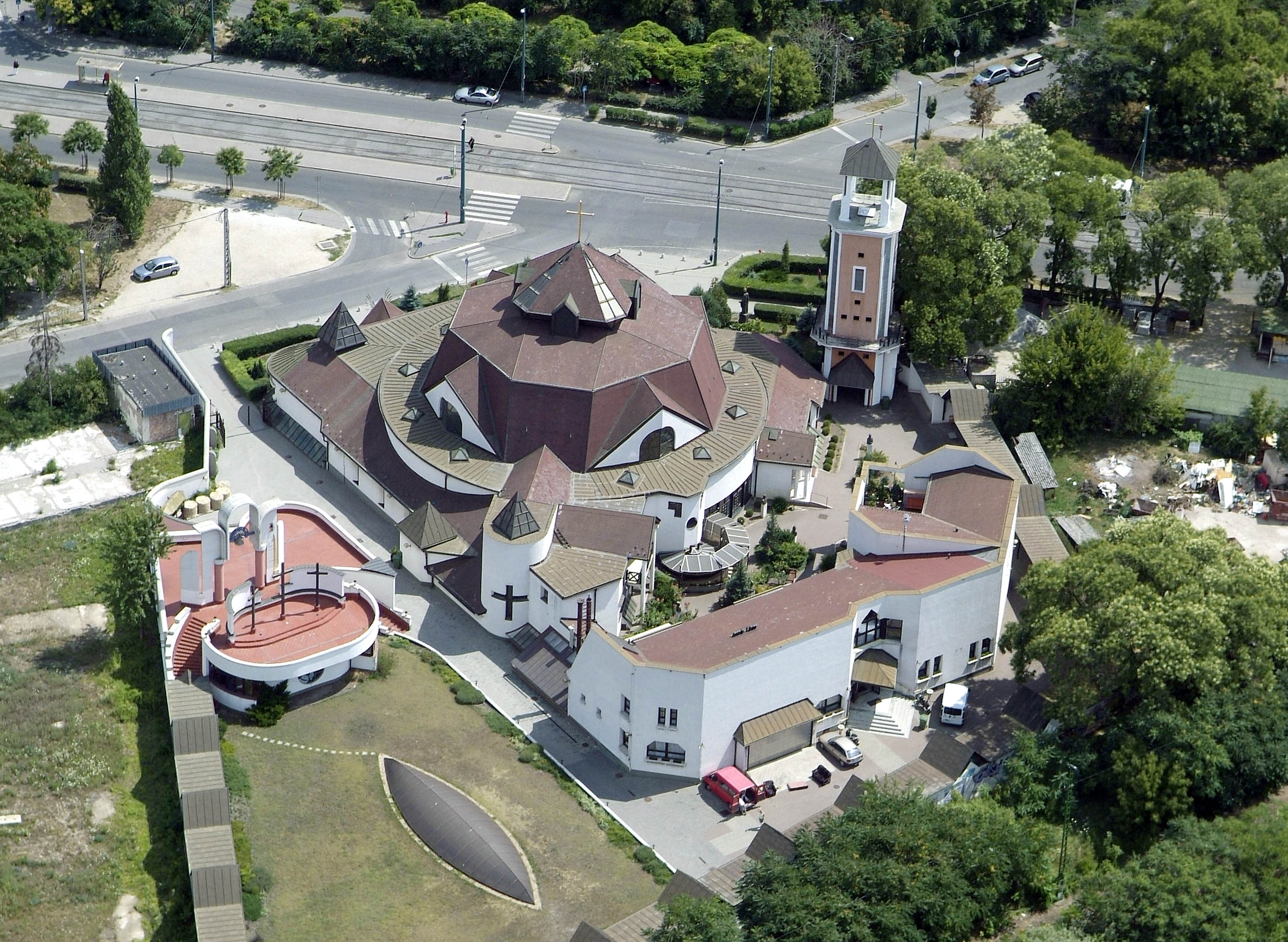 Temple, Budapest, Hungary, aerial photography